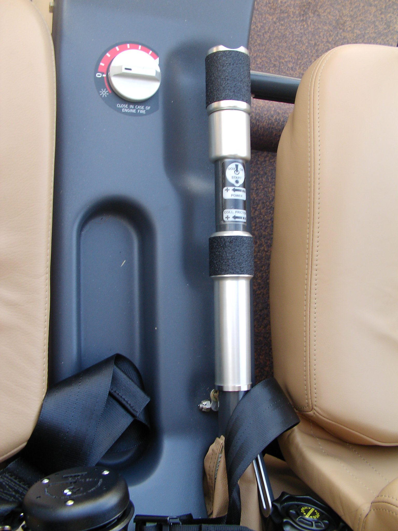 Guimbal Cabri G2 Cockpit 2